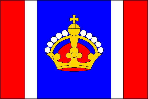 Municipal flag of Kladruby town, Tachov District, Czech Republic.